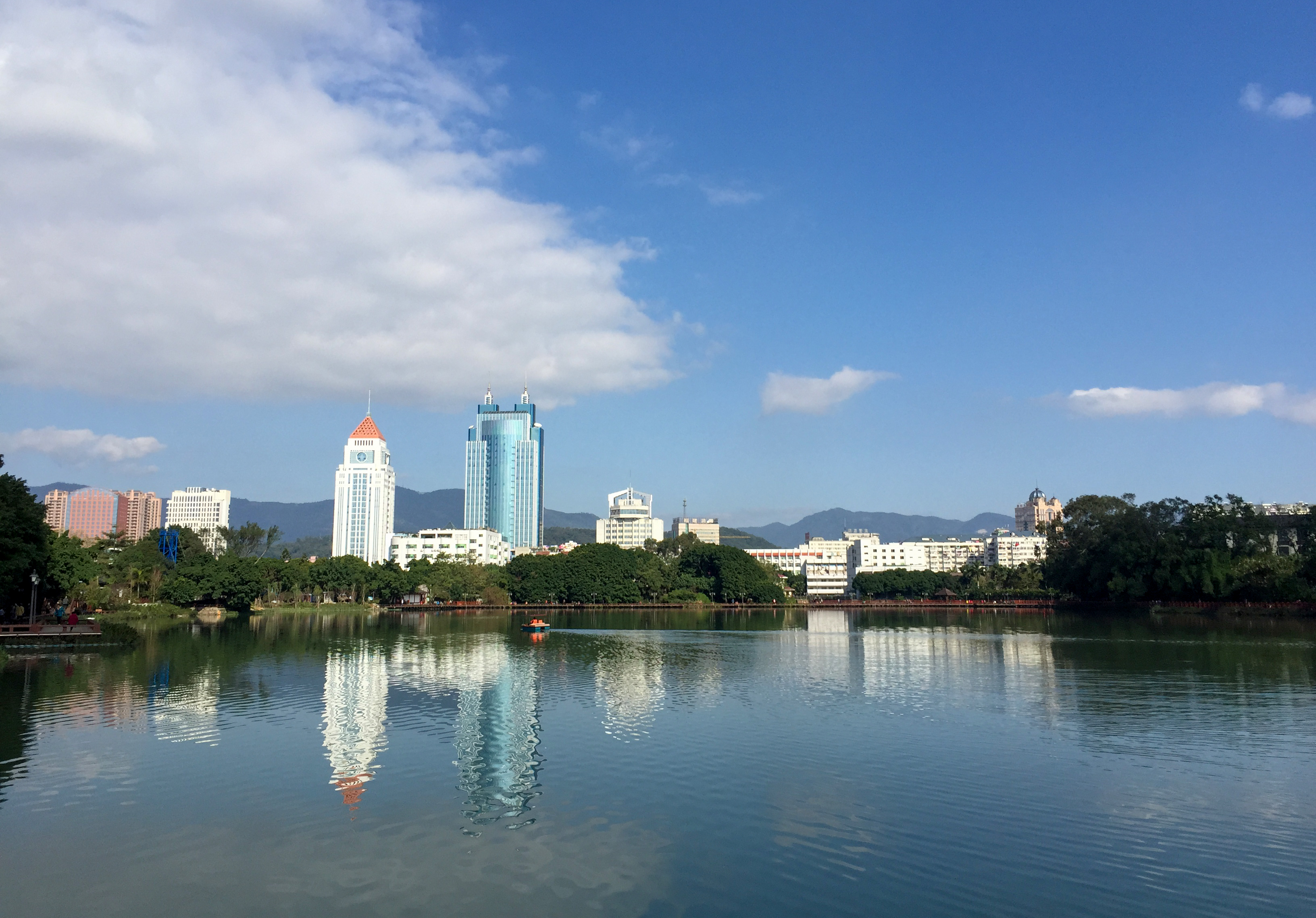 Happened to be a CAVOK.